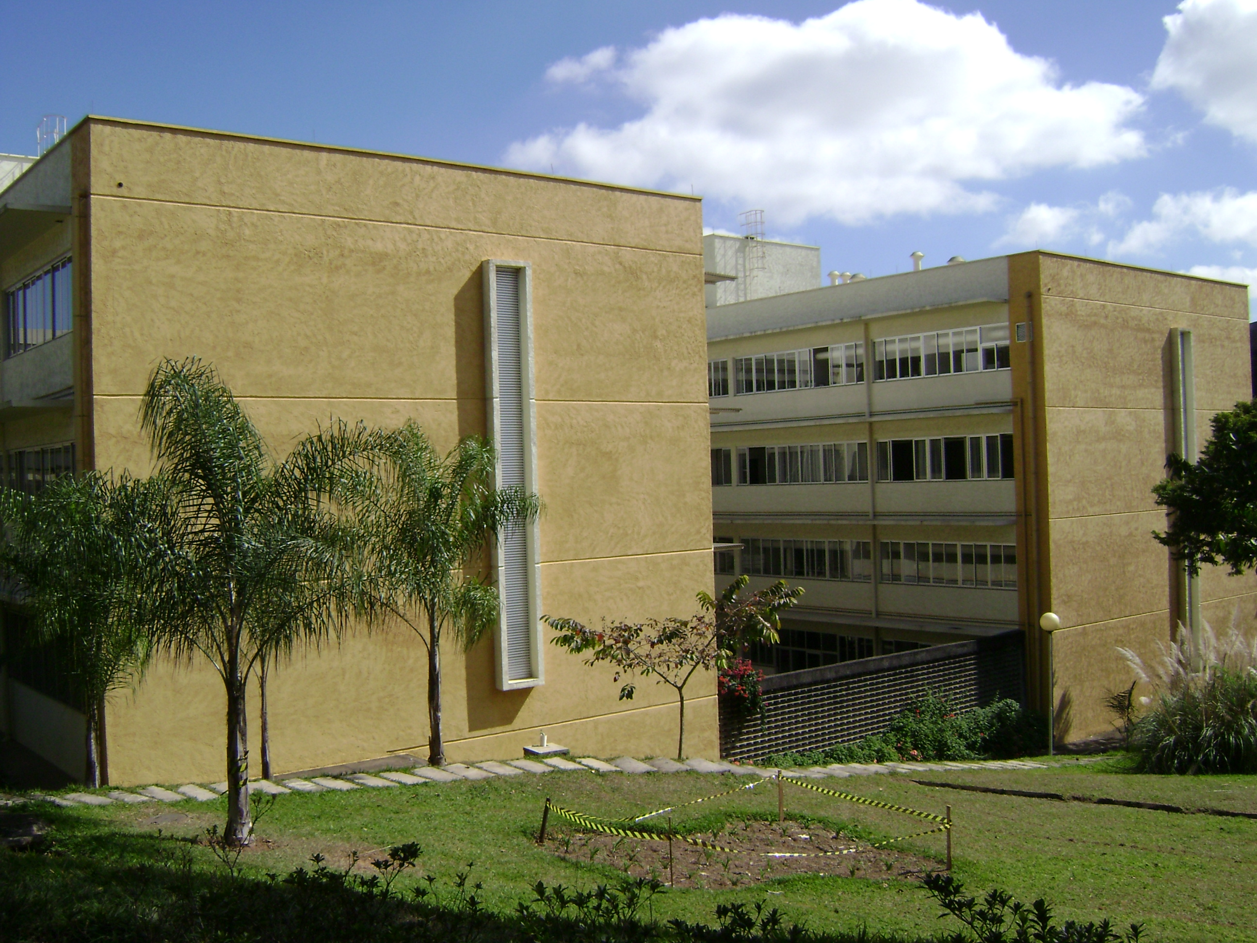 Vista parcial da faculdade de farmácia da UFMG.